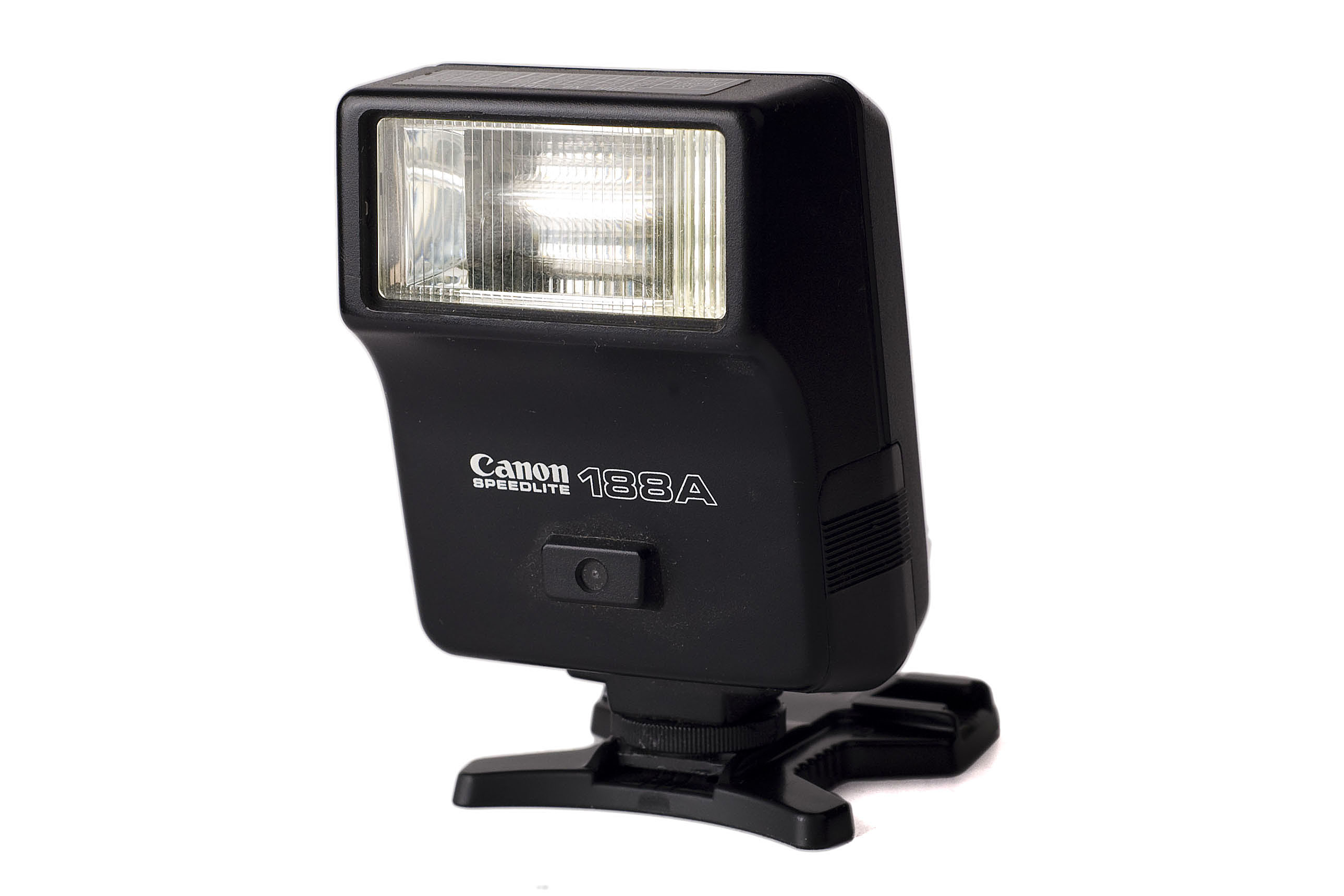 Canon Speedlite 188A front